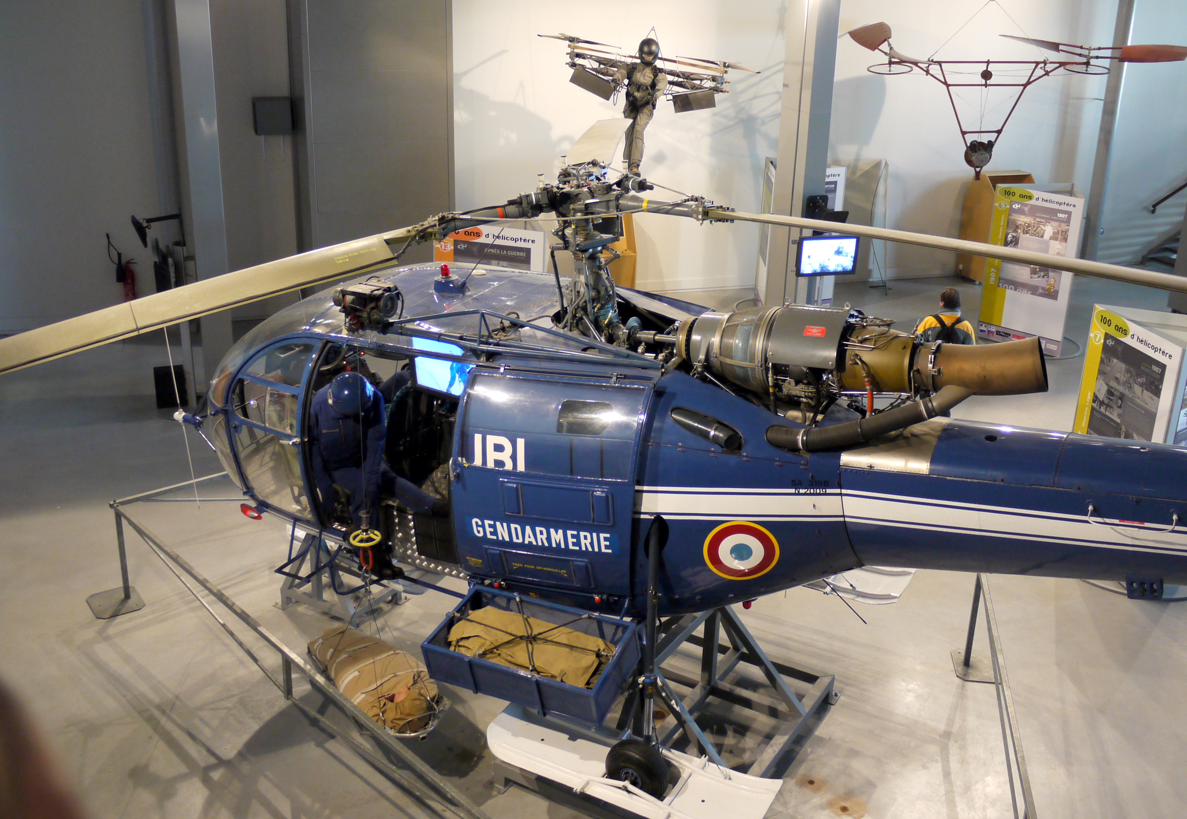 Light helicopter Alouette III of the french Gendarmerie; affected to the (1961), Museum of Air and Space Paris, Le Bourget (France)